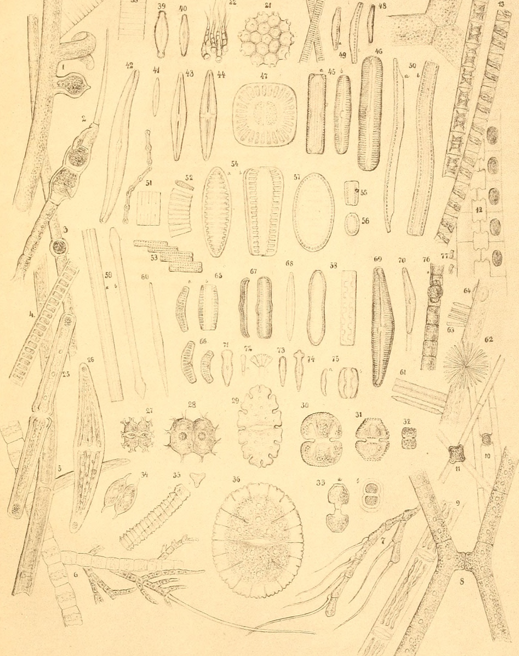 Title: Die einfachsten lebensformen. Systematische naturgeschichte der mikroskopischen süsswasserbewohner Year: 1878 (1870s) Authors: Eyferth, B. (Bruno), 1826-1897 Subjects: Freshwater biology Publisher: Braunschweig, Gebrüder Haering Text Appearing Before Image: u Text Appearing After Image: '